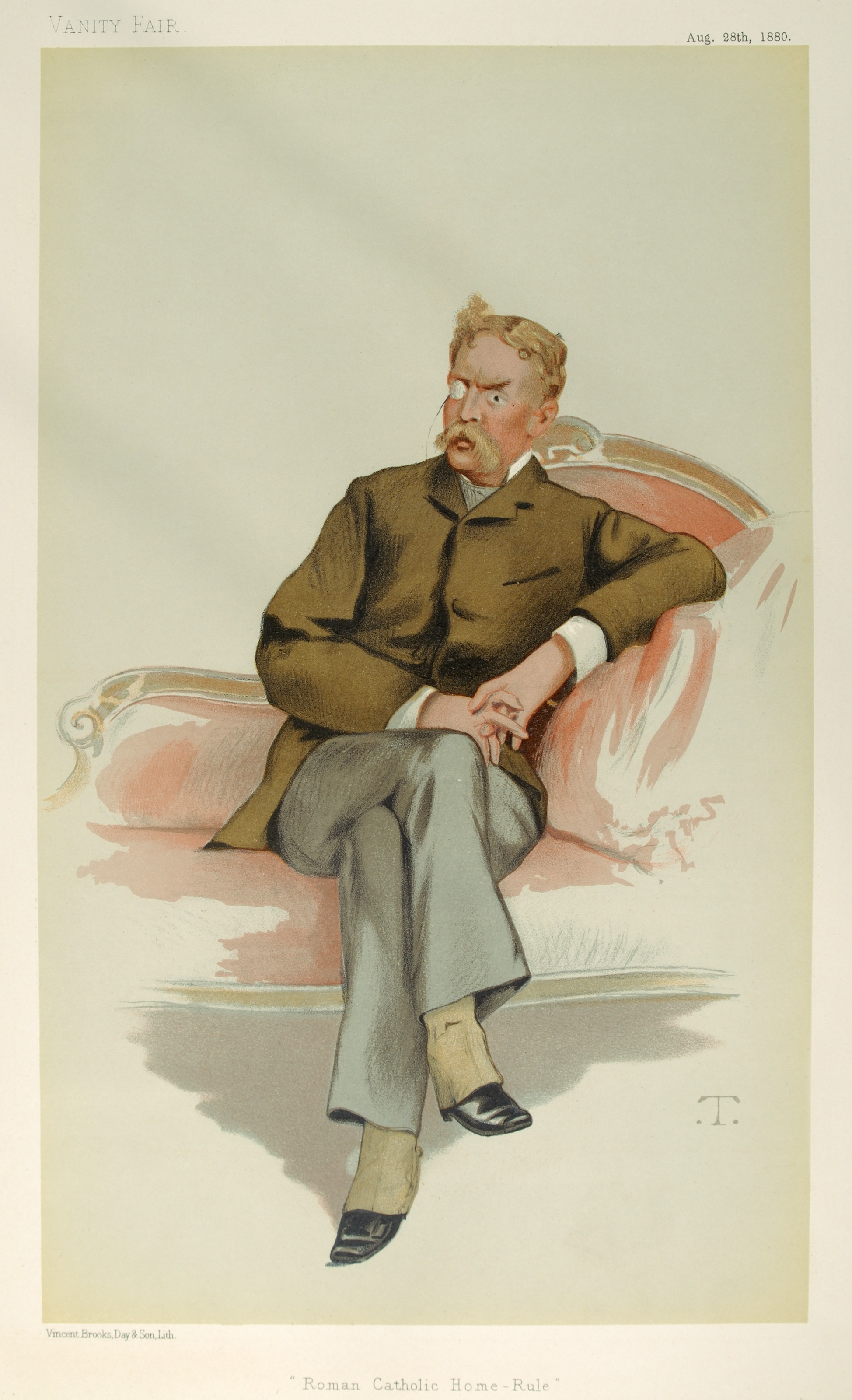 Statesmen No.336: Caricature of Mr FH O'Cahan O'Donnell MP. Caption reads: "Roman Catholic Home-Rule"